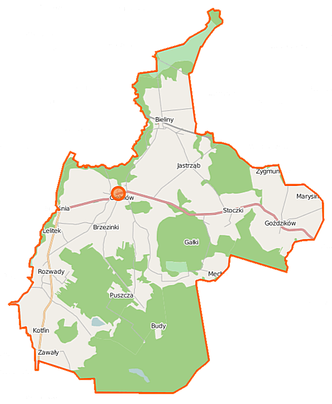 Map of Gmina Gielniów, Poland This map of Gielniów (gmina) was created from OpenStreetMap project data, collected by the community. This map may be incomplete, and may contain errors. Don't rely solely on it for navigation. Border coordinates51.466020.4119←↕→20.593951.3278